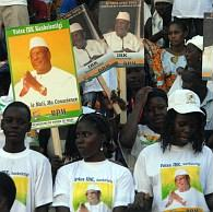 Supporters at a rally for opposition candidate Ibrahim Boubacar Keita, Mali. Voters in the West African nation of Mali go to the polls April 2007 to elect a president. The incumbent, President Amadou Toumani Toure, one of eight candidates, is widely expected to win a second term.